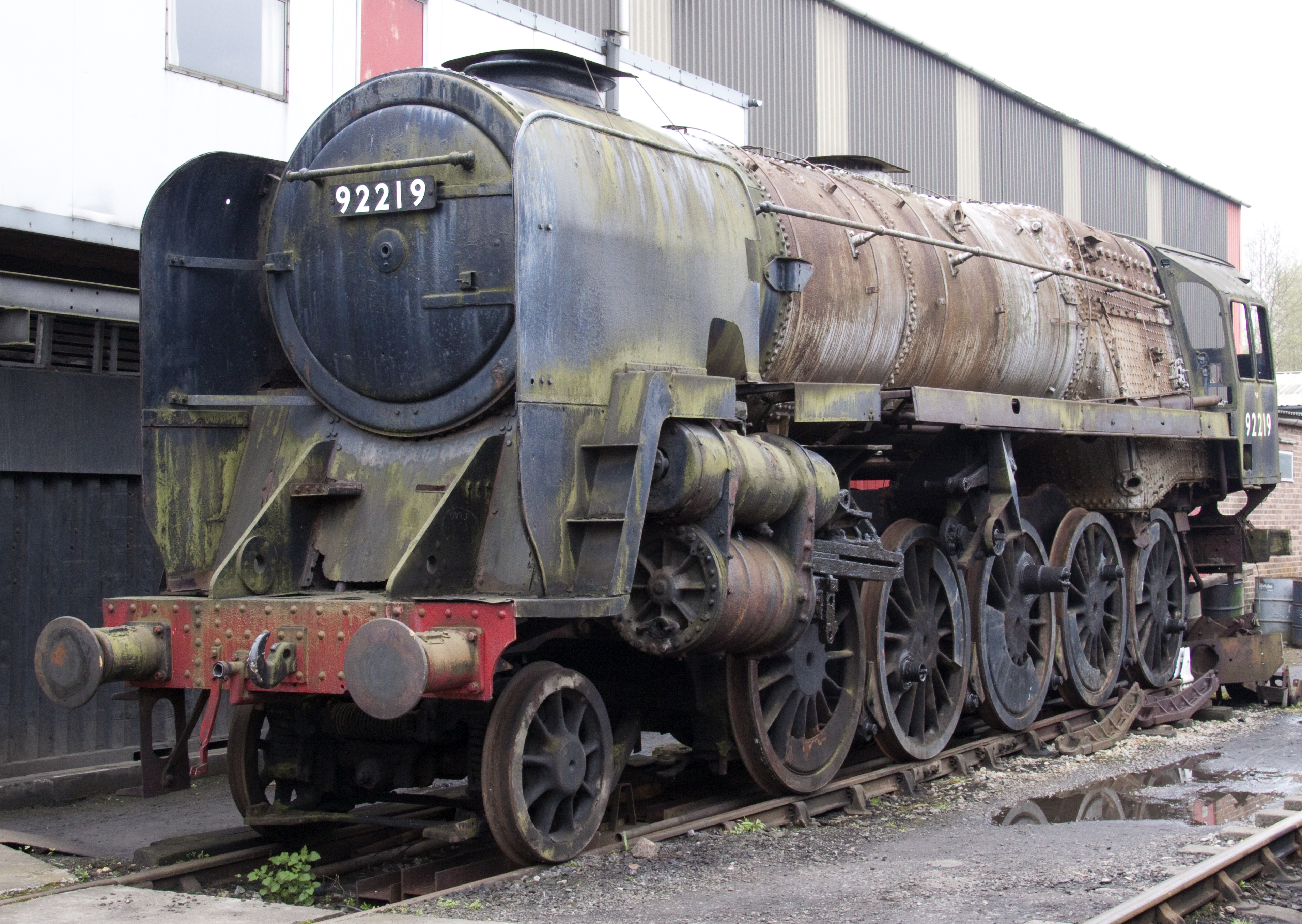 9F 92219 awaiting restoration at Swanwick on the Midland Railway